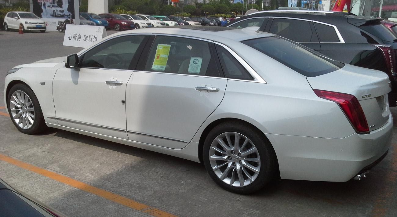 Cadillac CT6 photographed in Chongqing, China.